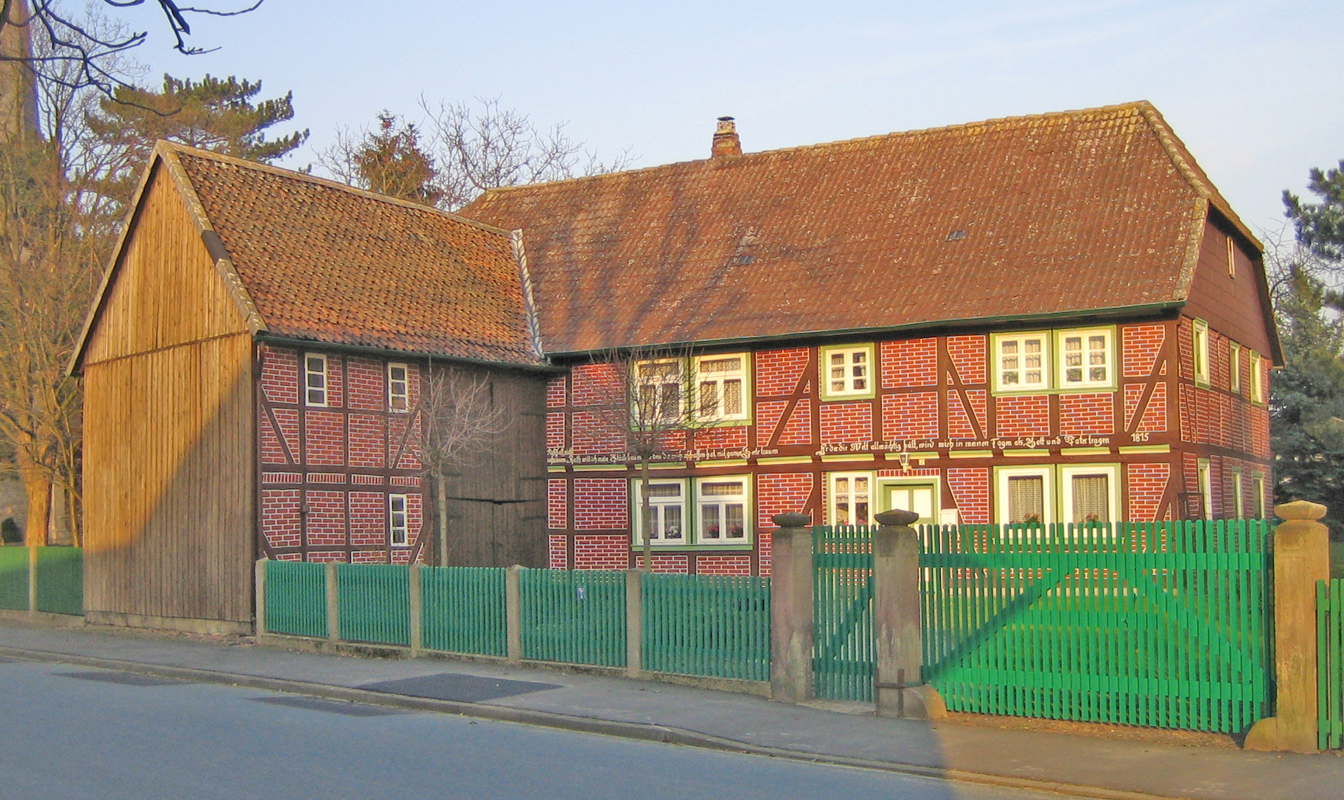 Farmhouse in Sonnenberg, municipality of Vechelde in Lower Saxony, Germany, 19th century.